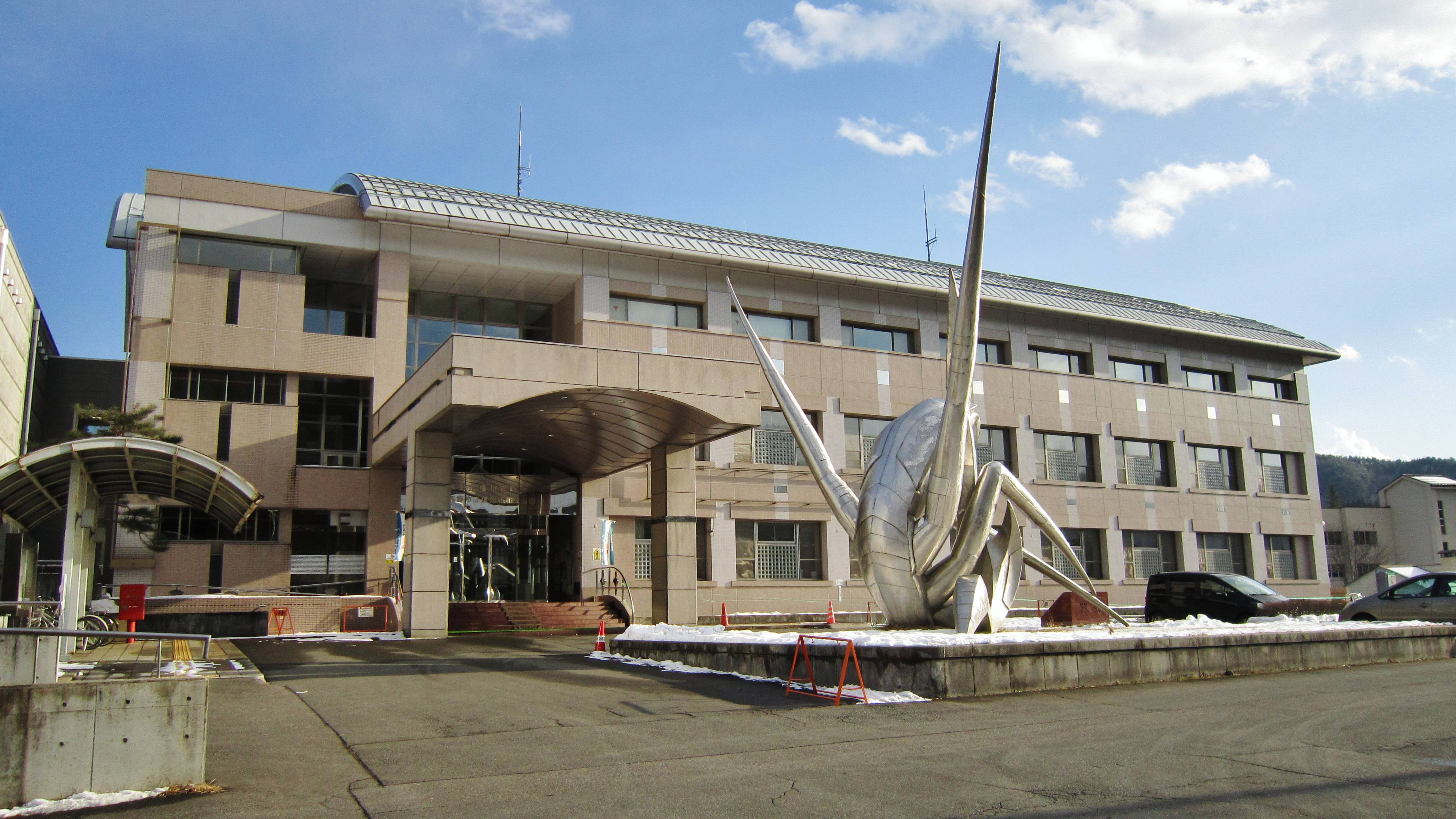 Nagano city Shinshūshinmachi branch office.